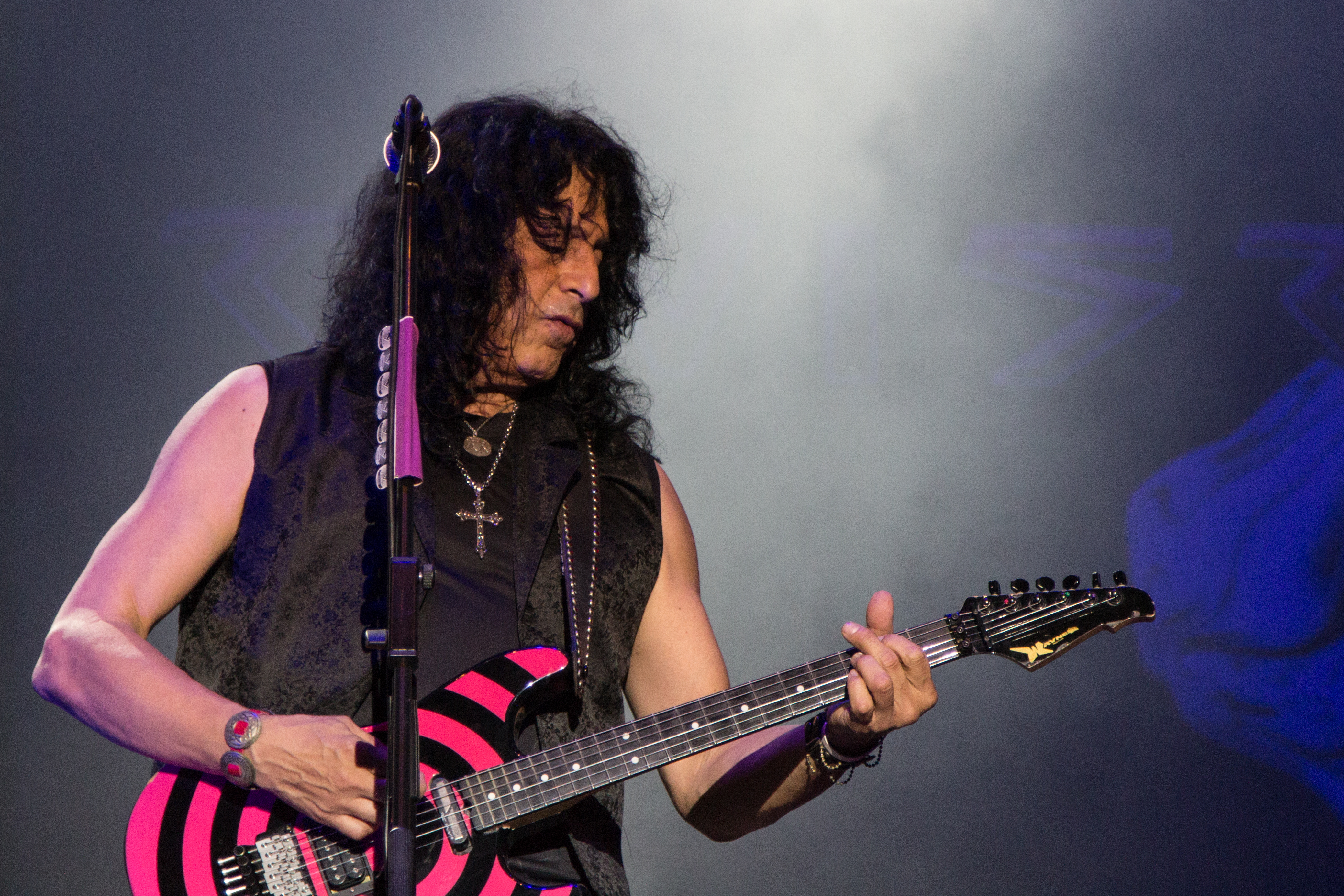 Eddie „Fingers“ Ojeda from Twisted Sister at the See-Rock Festival 2014